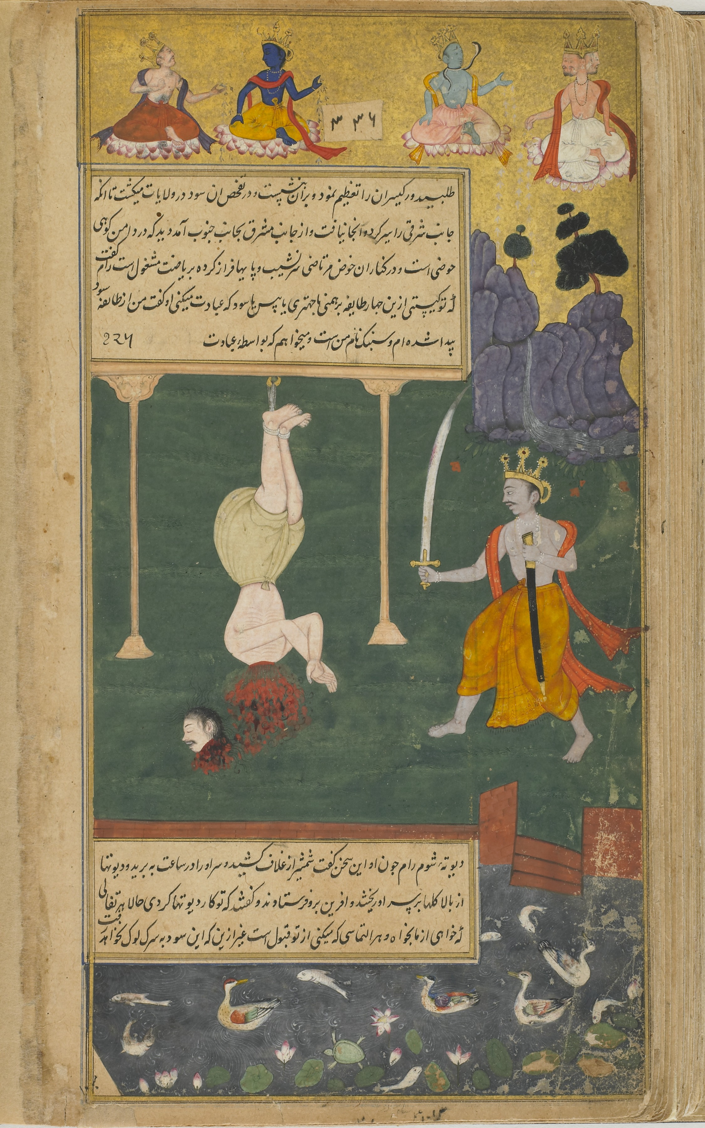 Folio from the Ramayana of Valmiki (The Freer Ramayana), Vol. 2, folio 333; recto: text; verso: Rama restores righteousness to the realm when he slays the "Sudra" Sambuka, who was performing austerities